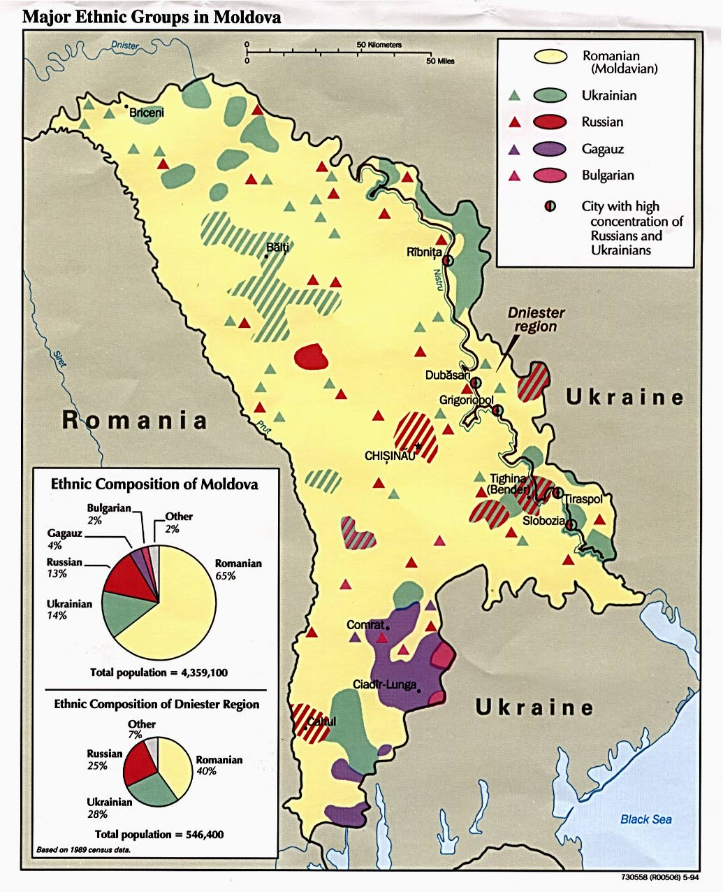 Map from the University of Texas showing the five major ethnics groups (Romanians/Moldovans, Ukrainians, Russians, Gagauz and Bulgarians) in former Moldavian SSR in 1989, just before the collapse of USSR.